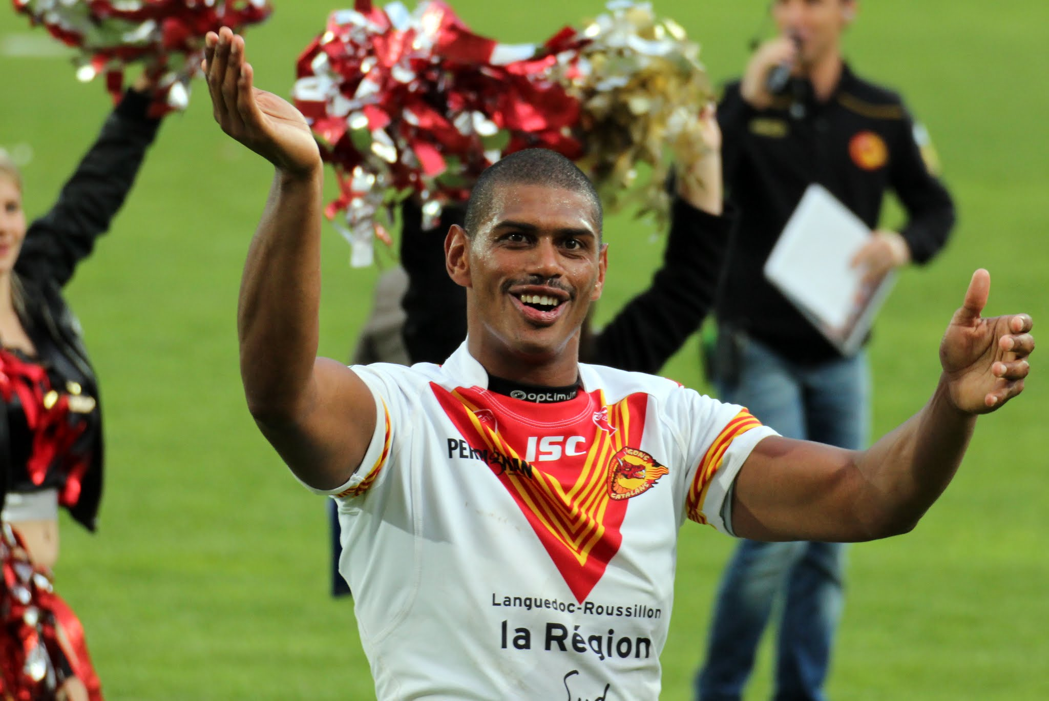 English rugby league player, Leon Pryce.